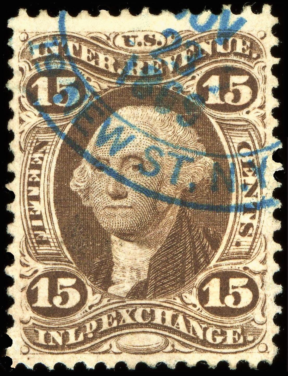 Image of Washington Revenue stamp, 15cm R40c